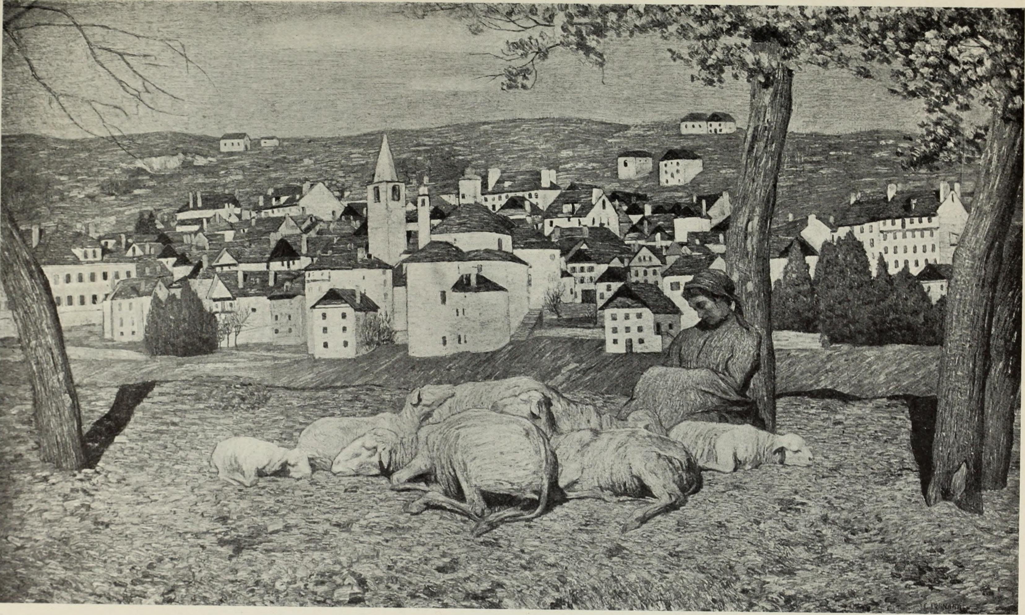 Midi d'hiver, by Carlo Fornara Title: International Studio an Illustrated Magazine of Fine and Applied Art Year: 1908 (1900s) Authors: Subjects: Publisher: New York. John Lane Co Text Appearing Before Image: 4.V the little white church 42 BY CARLO FORNARA Text Appearing After Image: - oQ o Q ^ 5S Carlo Fonmra, Italian Liuninist